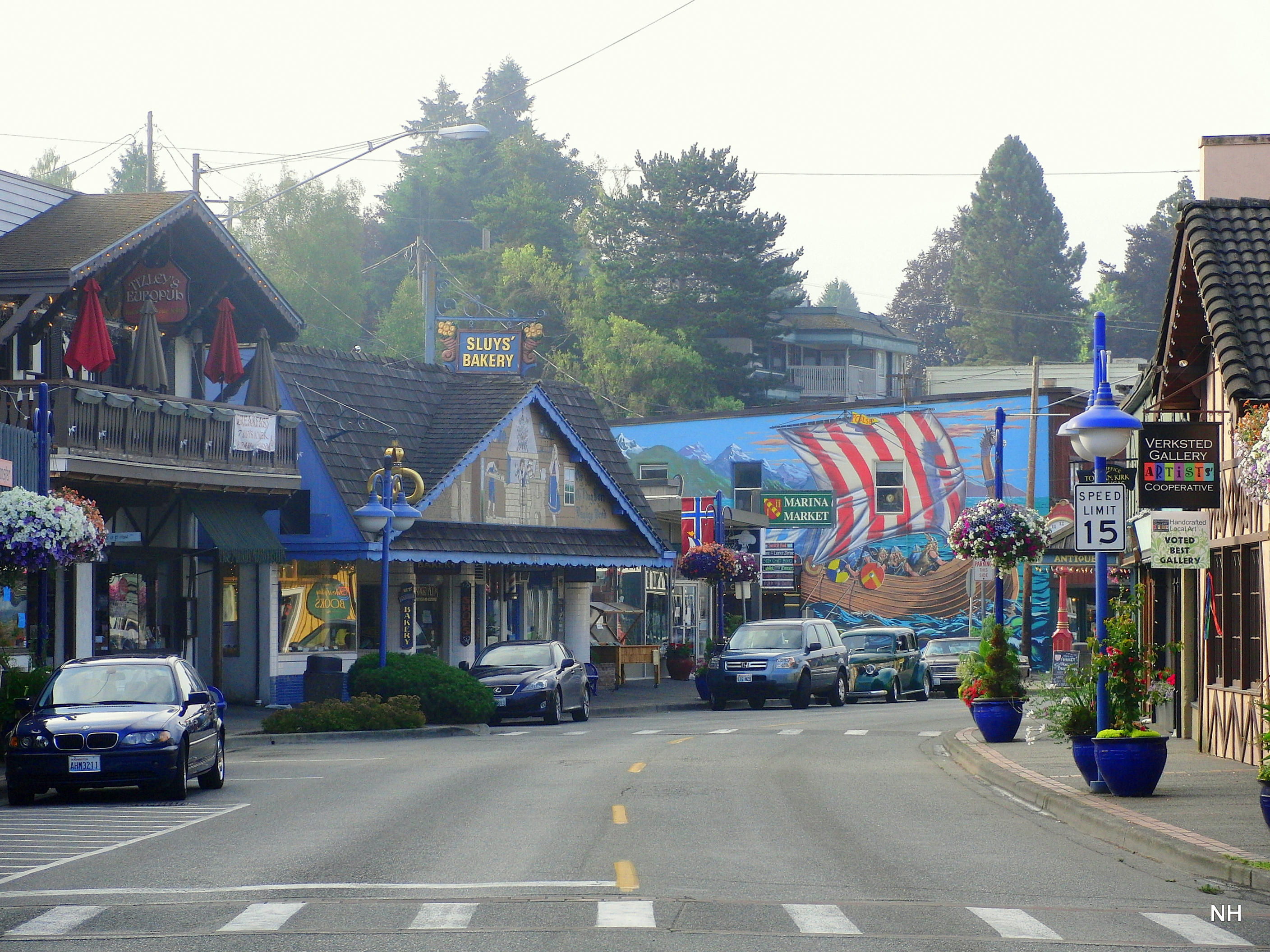 Poulsbo's Front Street